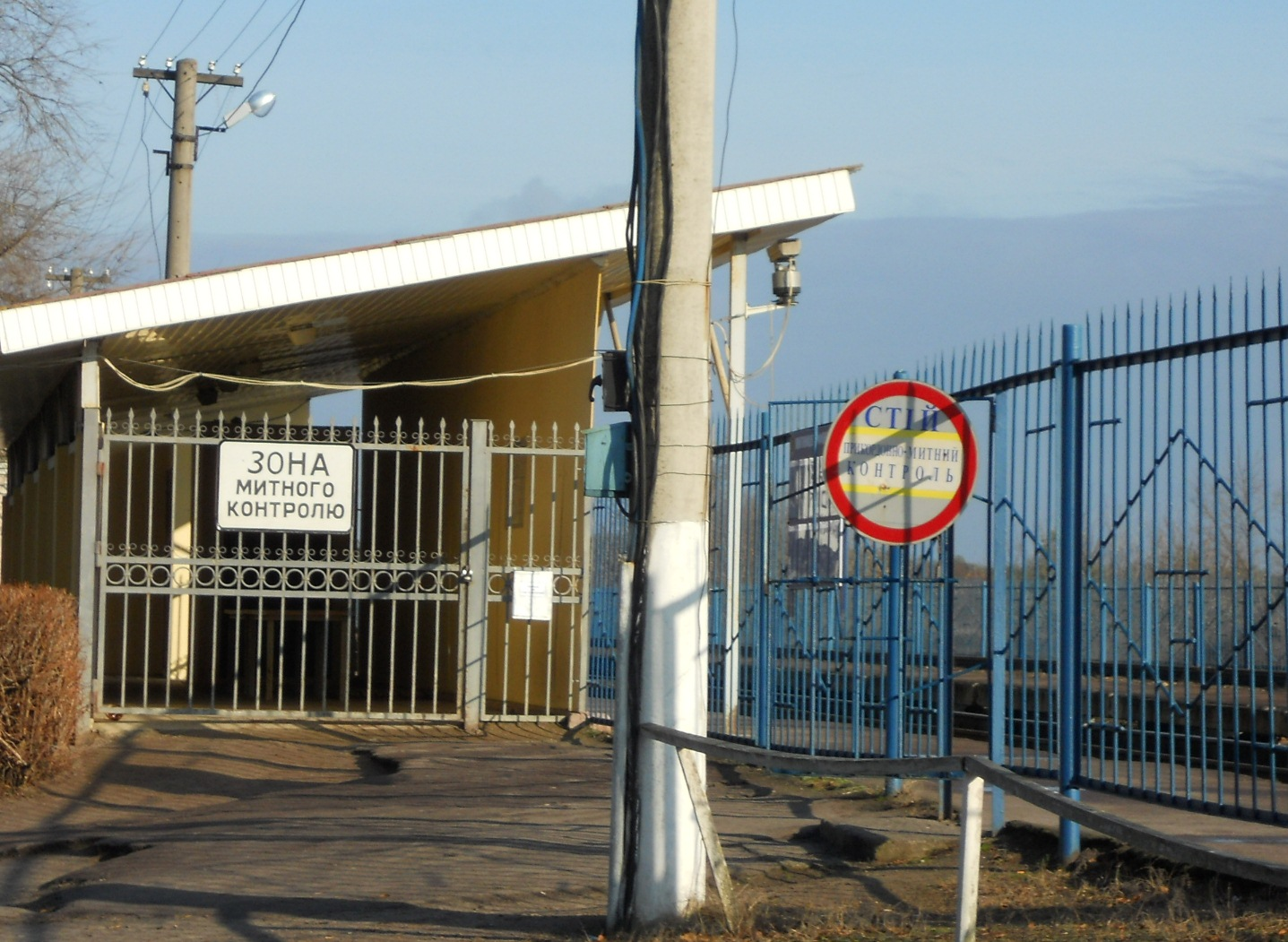 Udryk border control point